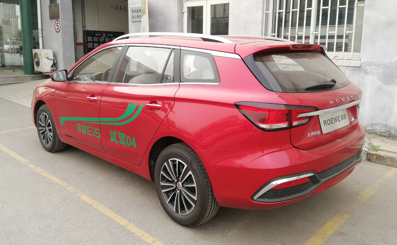 Roewe Ei5 photographed in Beijing, China.